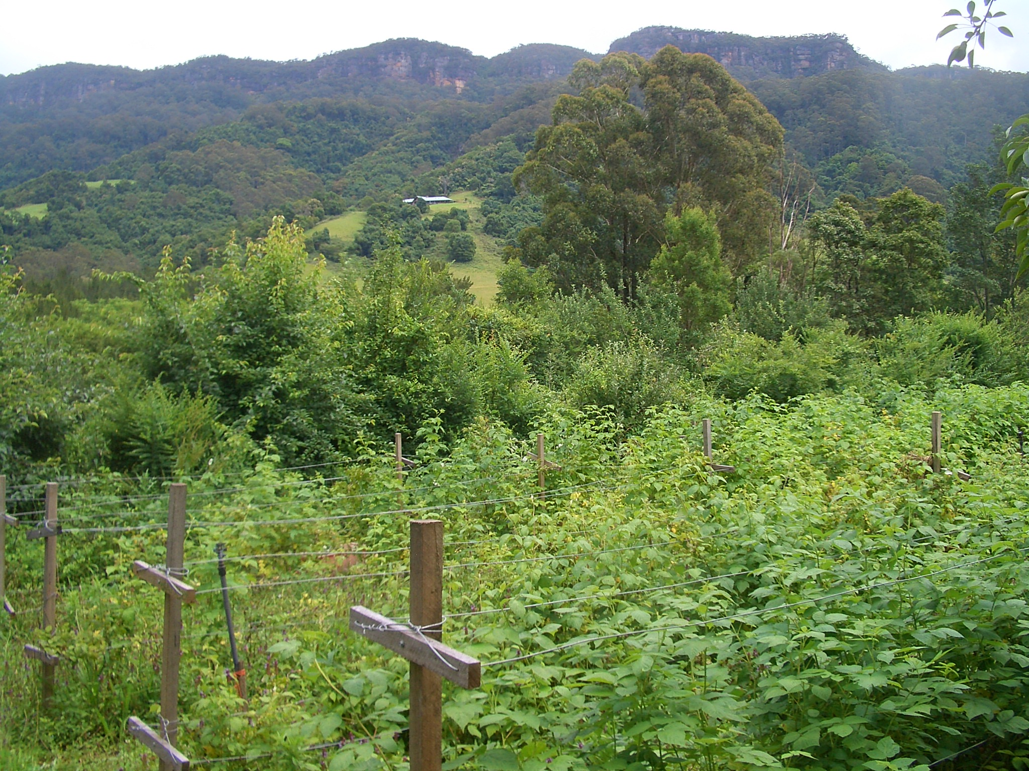 Raspberry bushes at a small WWOOF participant farm in Wattamolla Valley, near Berry, NSW, Australia.